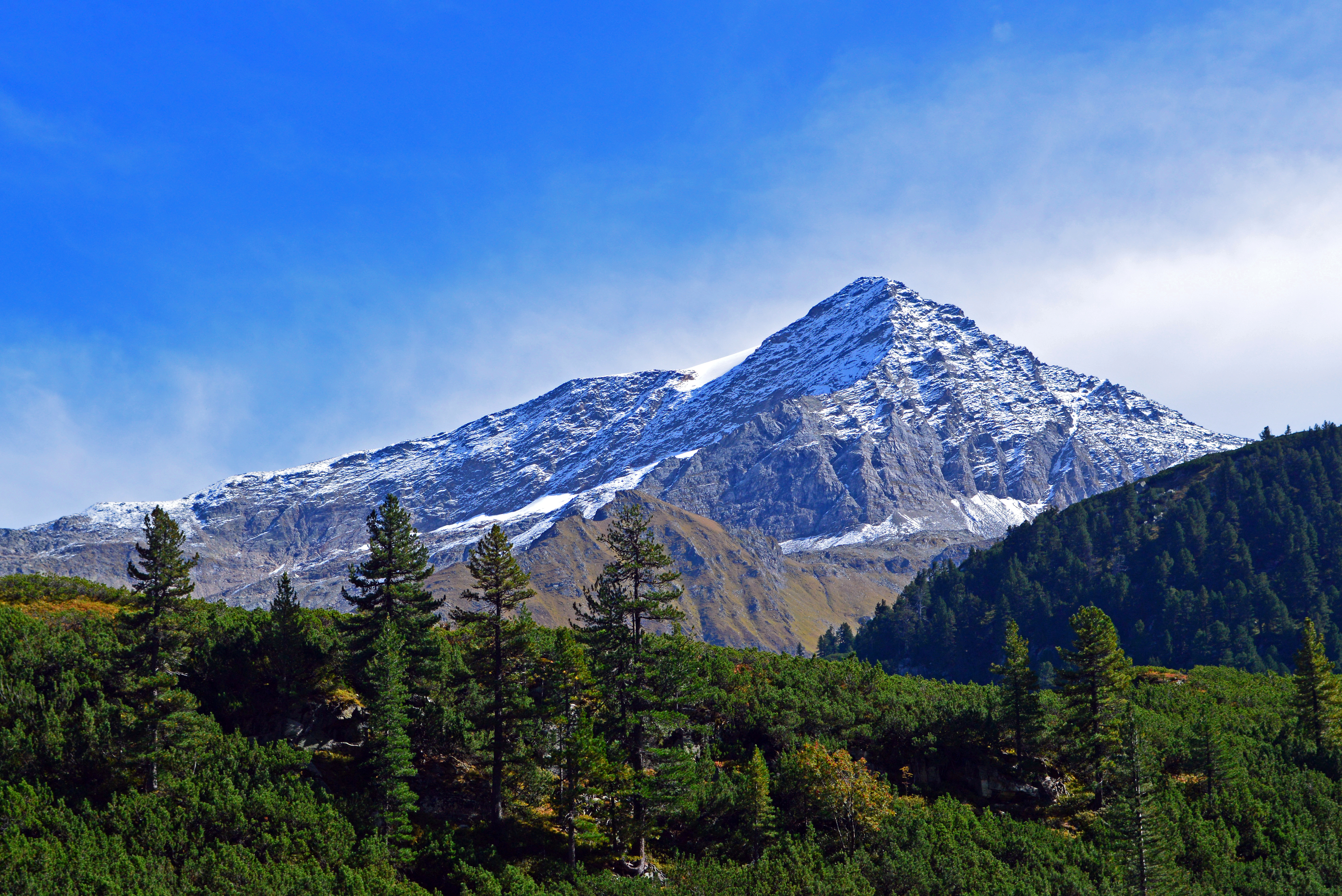 Wiegenwald, National Park Hohe Tauern, Stubach valley, Uttendorf, Salzburg (state), Austria.